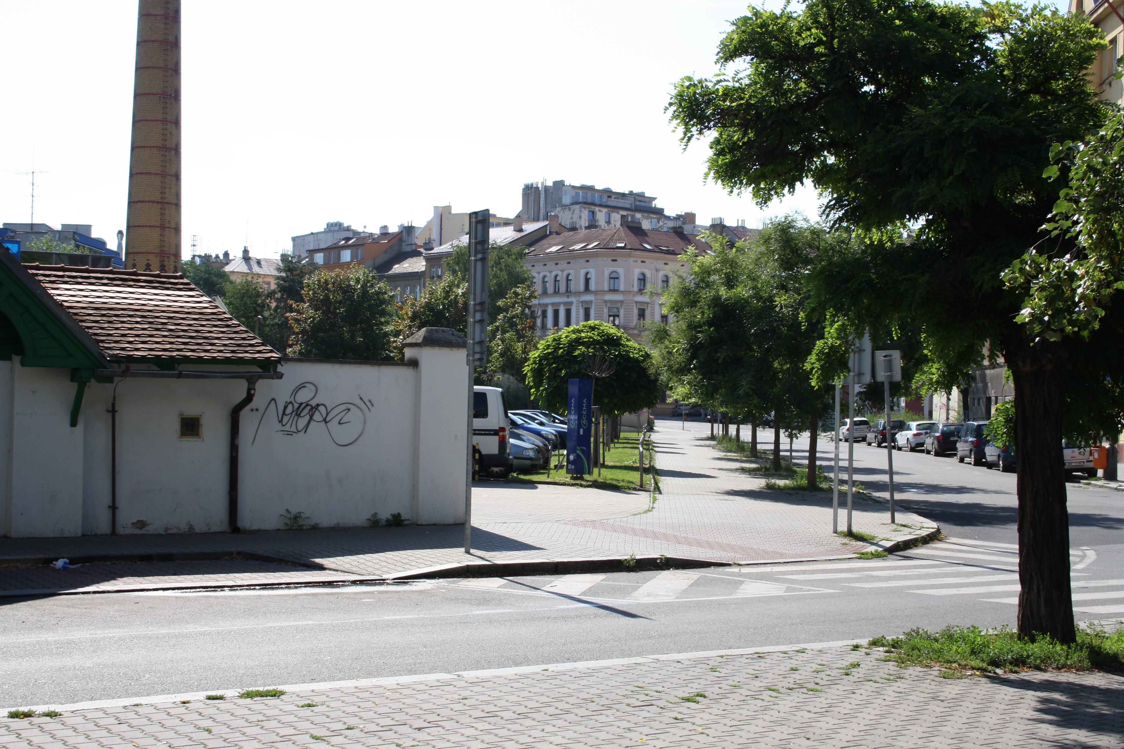 Crossing Kotlaska vs U Libeňského pivovaru, Liben, Prague, Czech republic